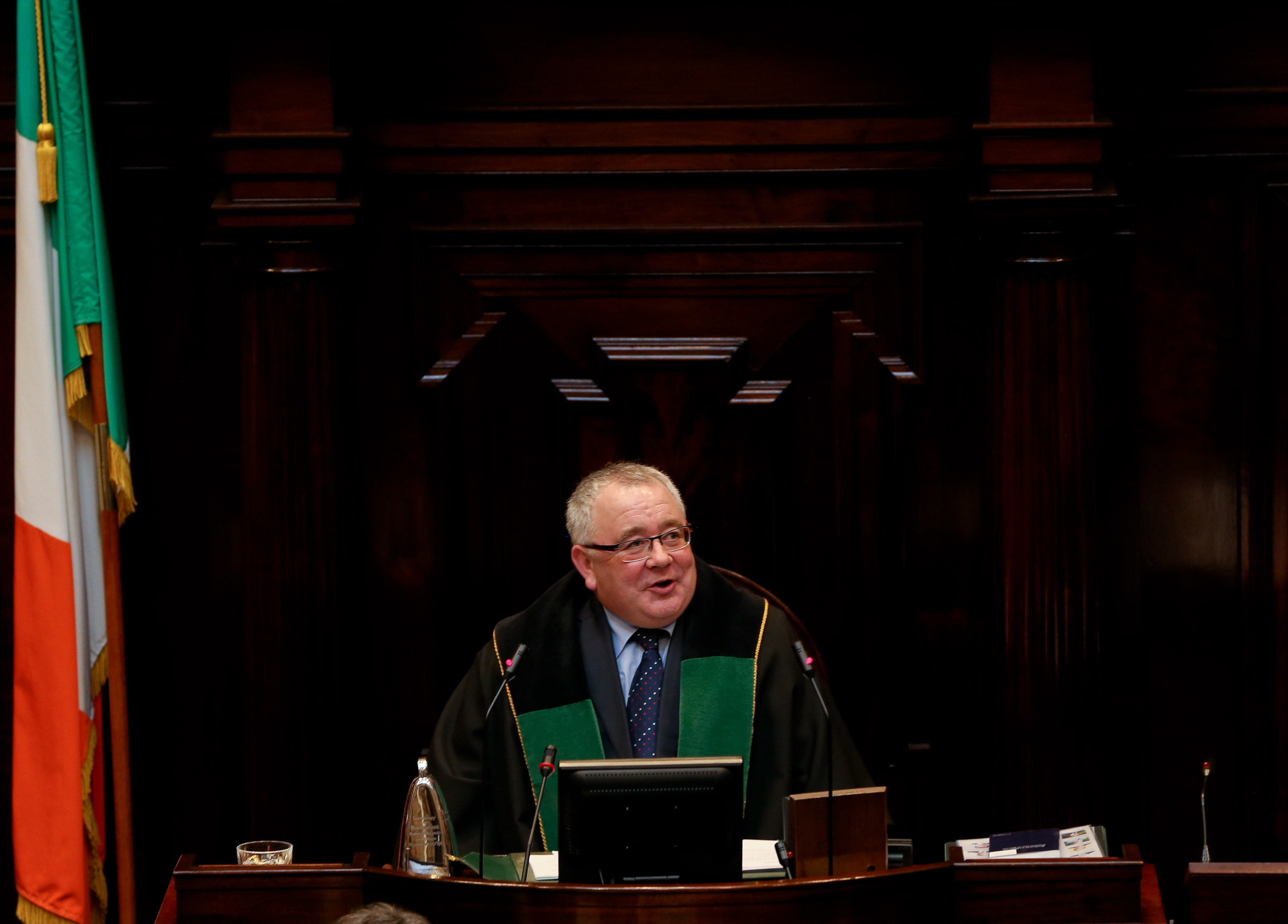 NO REPRO FEE …. 10-3-16 … First sitting Day of the 32nd Dail in Leinster House …….. Pic shows newly elected Ceann Comhairle Sean O Fearghail as he addresses the 32nd Dail in the Dail Chamber Leinster House in Dublin. Pic Maxwell's - No Repro Fee 10-3-16